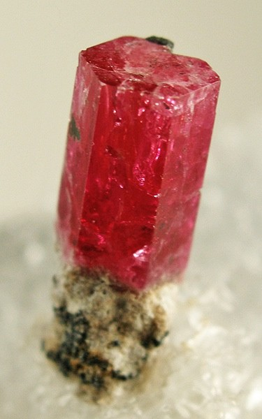 Beryl (Var.: Red Beryl) Locality: Wah Wah Mts, Beaver County, Utah, USA (Locality at ) Size: 1.6 x 0.4 x 0.4 cm. This is a small crystal, admittedly, but even the small ones are prized now, as these are not being mined anymore, and there were never many to start with. This one is bright cranberry red, terminated, and complete.